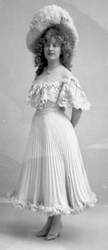 A young white woman, standing, wearing a light-colored pleated and lace-trimmed dress with an off-the-shoulder neckline, and a large hat; her hair is voluminous and falls longer than her shoulders.